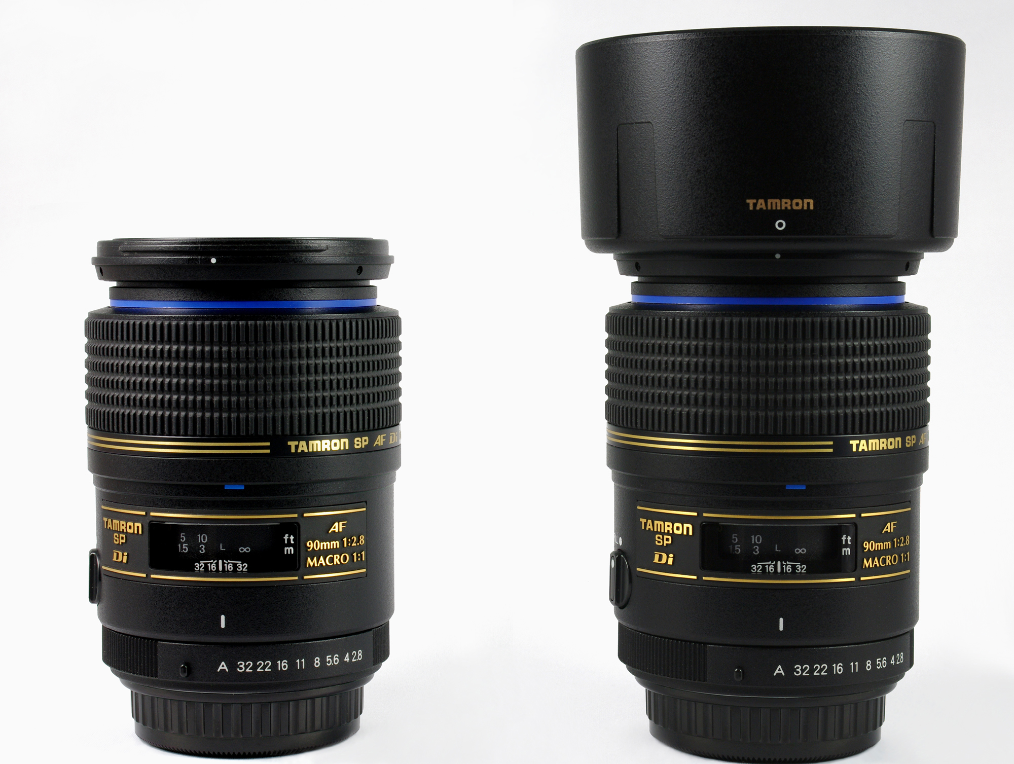 The tele-macro lens Tamron SP AF 90 mm F/2.8 Di MACRO 1:1 – without and with lens hood. Note: In focusing towards close range/maximum magnification ratio, the inner tube is extending considerably (unlike to the Tamron 180 mm macro lens, see: File:TamronMacro90+180 1.jpg + File:TamronMacro90+180 2.jpg). Note: This sample – bought in 2008 – is for Pentax K-mount; others (at least for Canon) don't have an aperture ring!